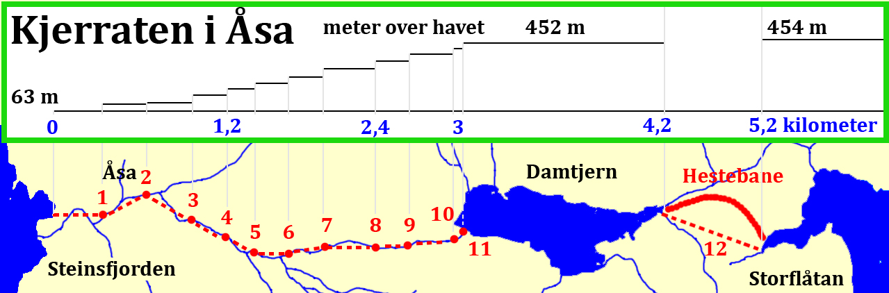 The Asa Kjerrat - Map of log haul up